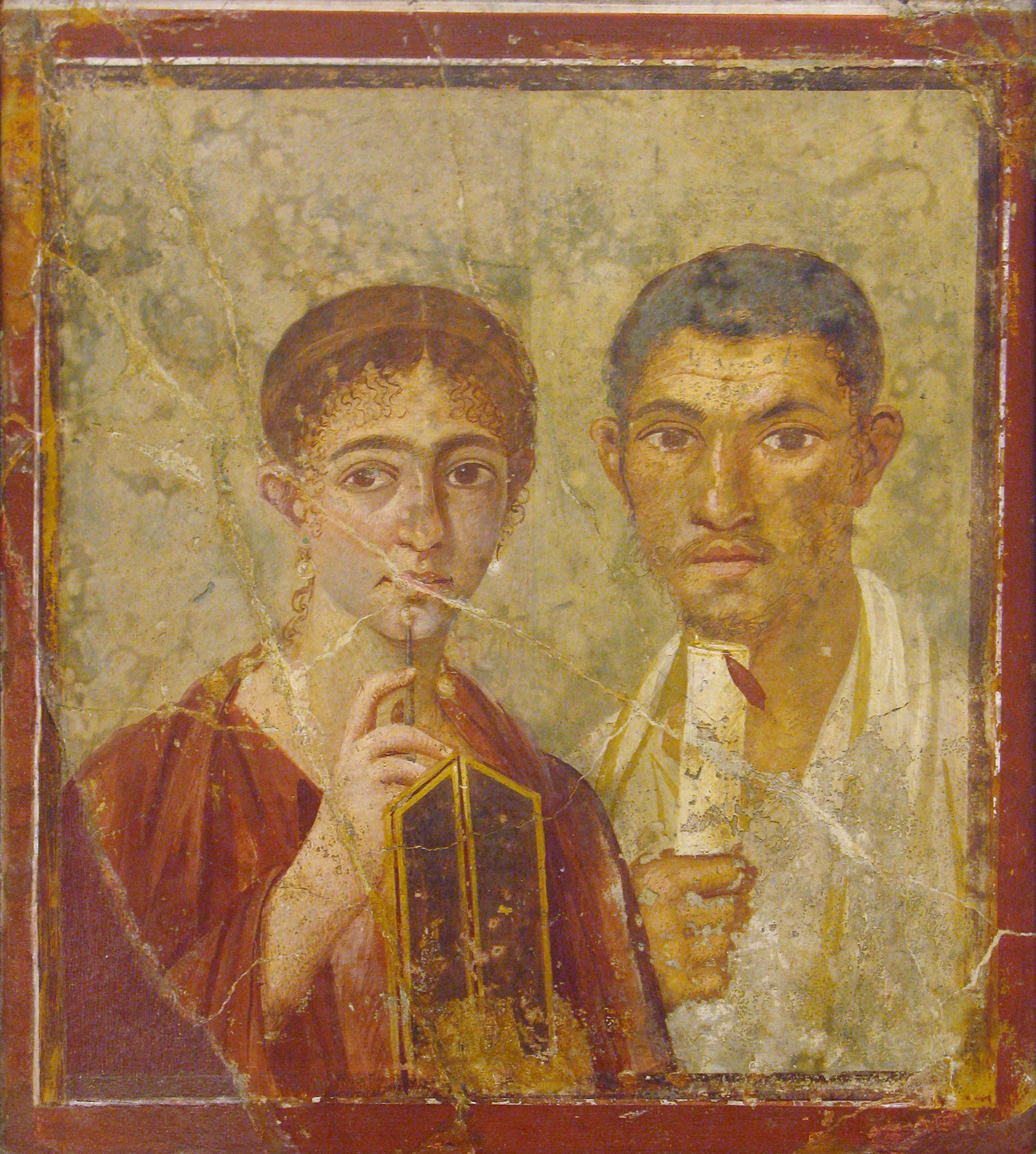 Portrait of Terentius Neo and his wife, Pompei, Terentius Neo's house, VII 2, 6. Naples National Archaeological Museum